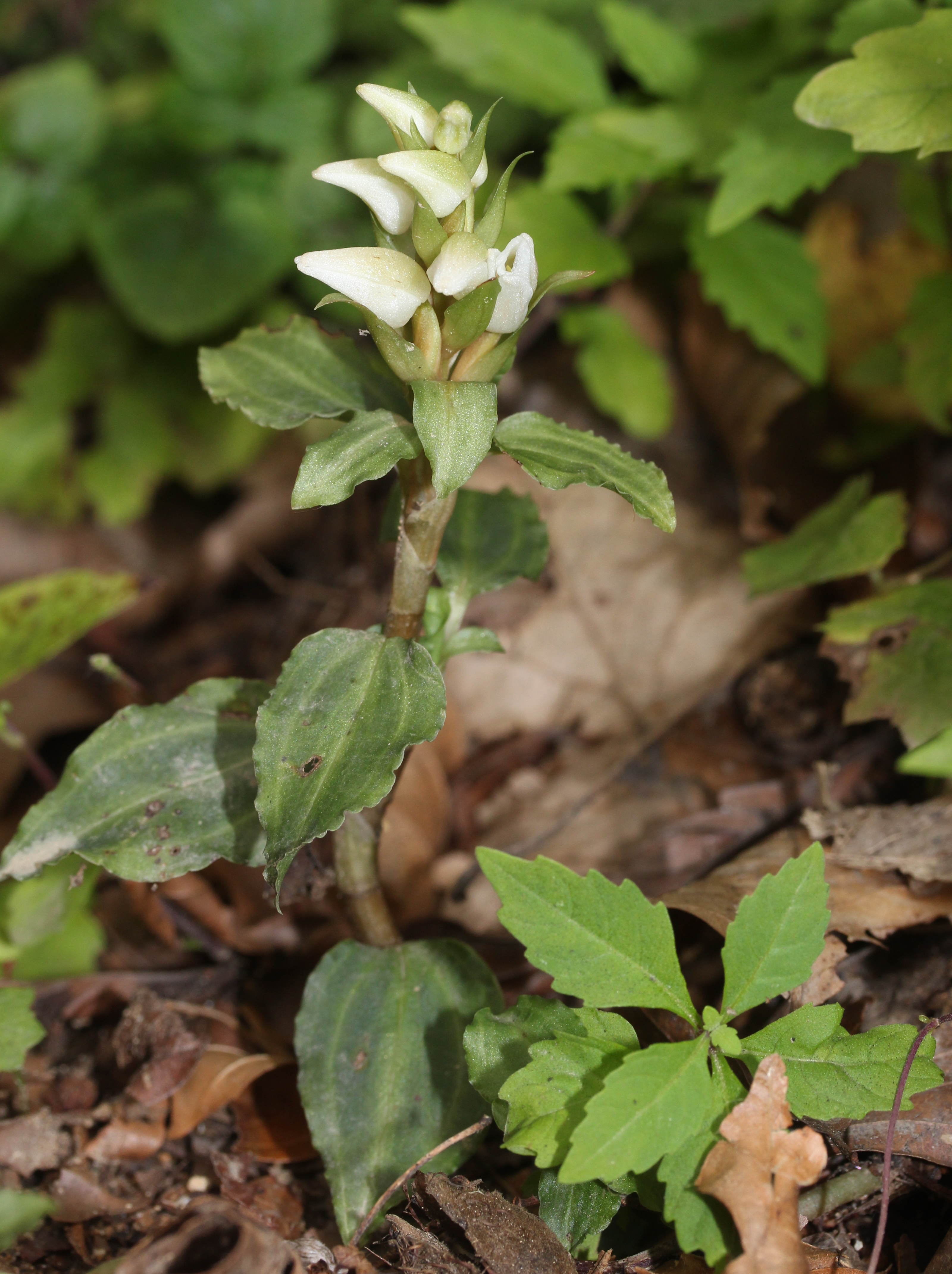 Goodyera foliosa var. laevis in Mount Mominuka, Hida, Gifu prefecture, Japan.